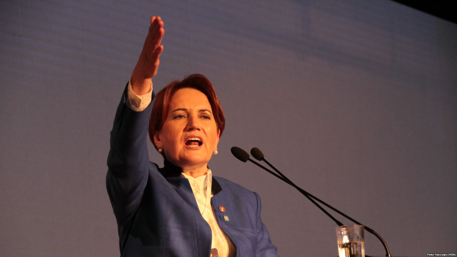 İYİ Party leader Meral Akşener making a speech at her party's first congress